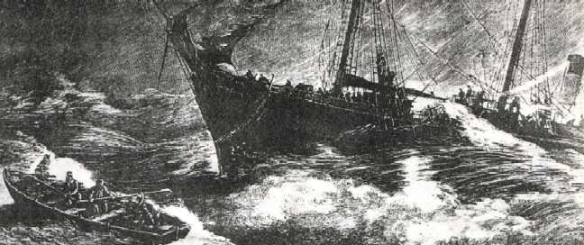 Loss of the Steamer Gothenburg.